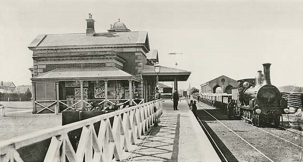 Goulburn Railway Station Dated: by 31/12/1879 Digital ID: 17420_a014_a014000619 Rights: We'd love to hear from you if you use our photos. Many other photos in our collection are available to view and browse on our website using Photo Investigator.